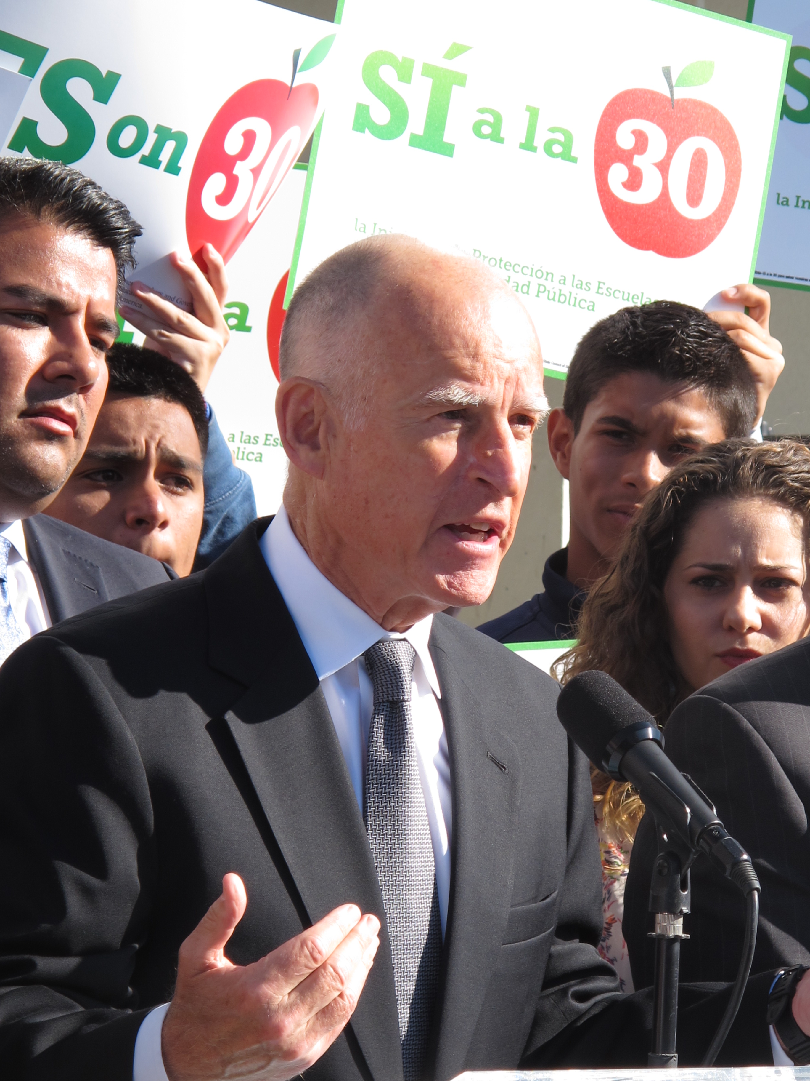 Governor of California Jerry Brown during a speech. The governor speaks about his support of Prop. 30